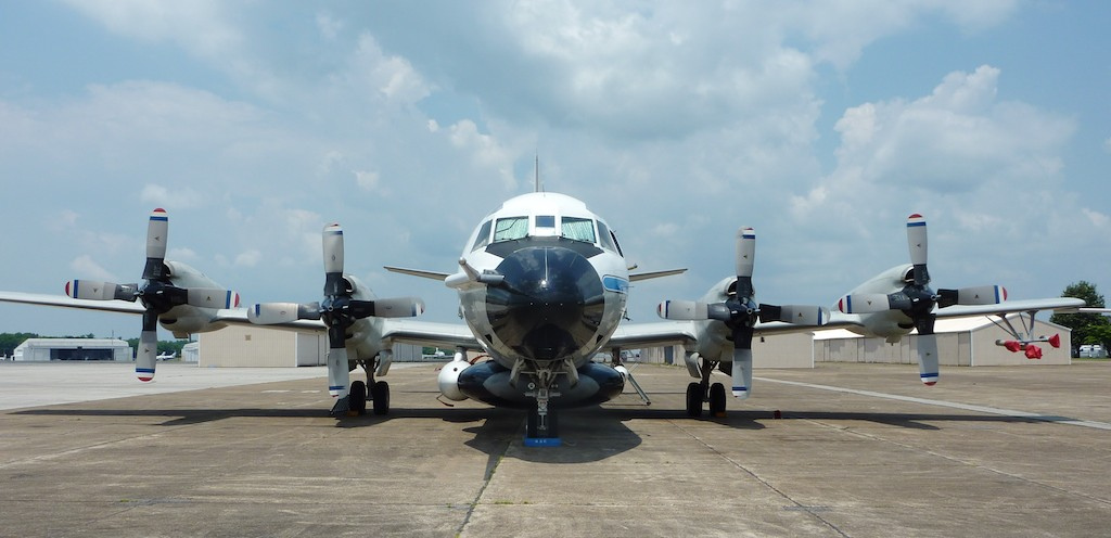 A primary mission of this aircraft--a hurricane hunter--is taking measurements in hurricanes to improve predictions and scientific understanding. But these photos were taken during the Southeast Nexus (SENEX) research study of air quality and climate in the Southeastern United States. The aircraft was the centerpiece of the study--filled with scientific instrumentation to analyze gases and small particles. The field study was organized and supported by the National Oceanographic and Atmospheric Administration in conjunction with a number of partners. Other photos in this series show details of the aircraft. These photos were taken in Smyrna, Tennessee.